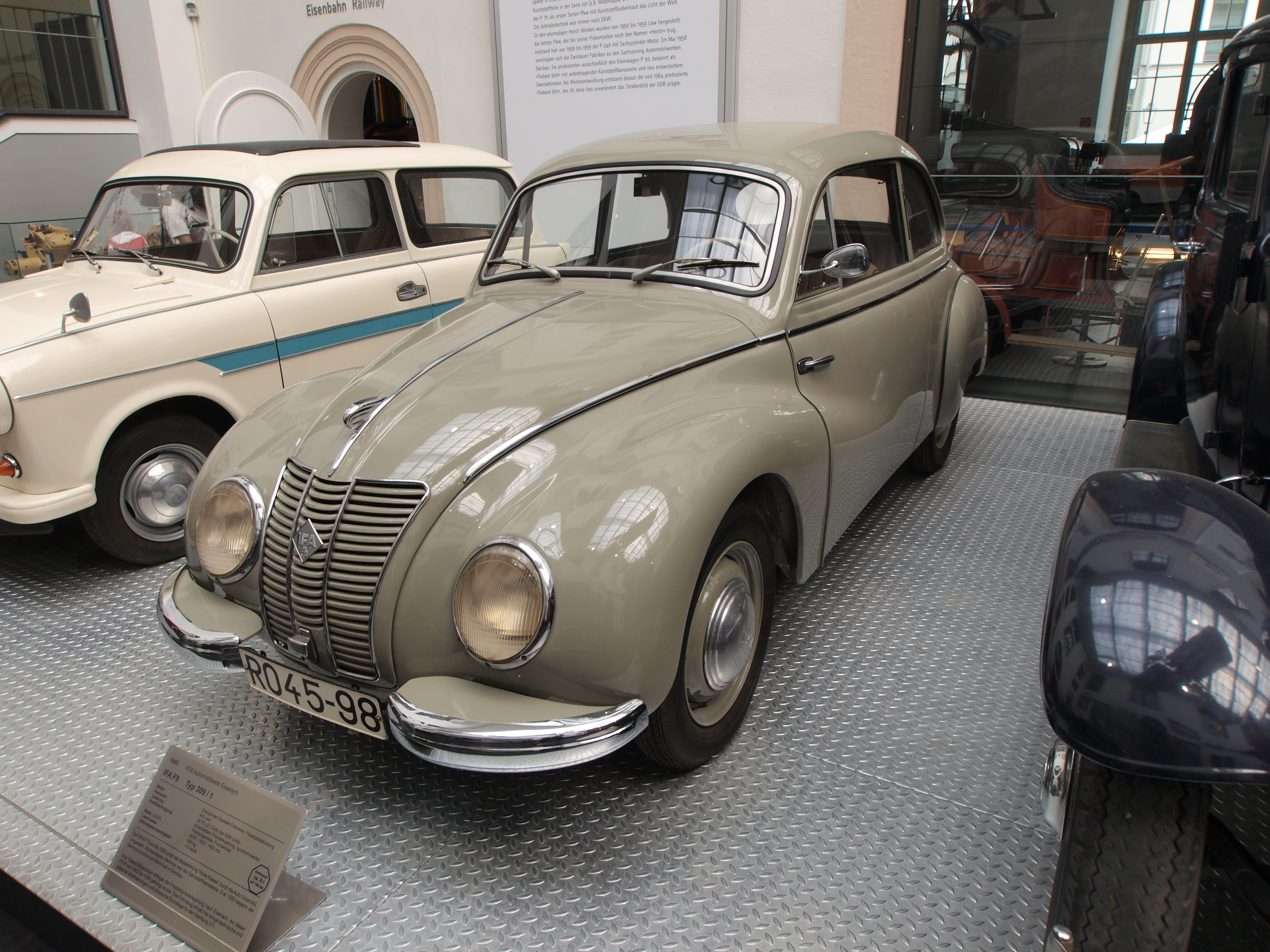 Photo taken without a tripod (was not permitted!) 1955 VEB IFA F9 Type 309-1